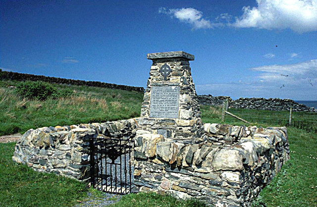 Memorial to the brig The Exmouth of Newcastle. Bound out of Derry for Quebec with emigrants, the ship was driven on to the rocks nearby with the loss 241 Irish lives. 28th April 1847.